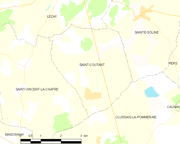 Map of French municipality Saint-Coutant